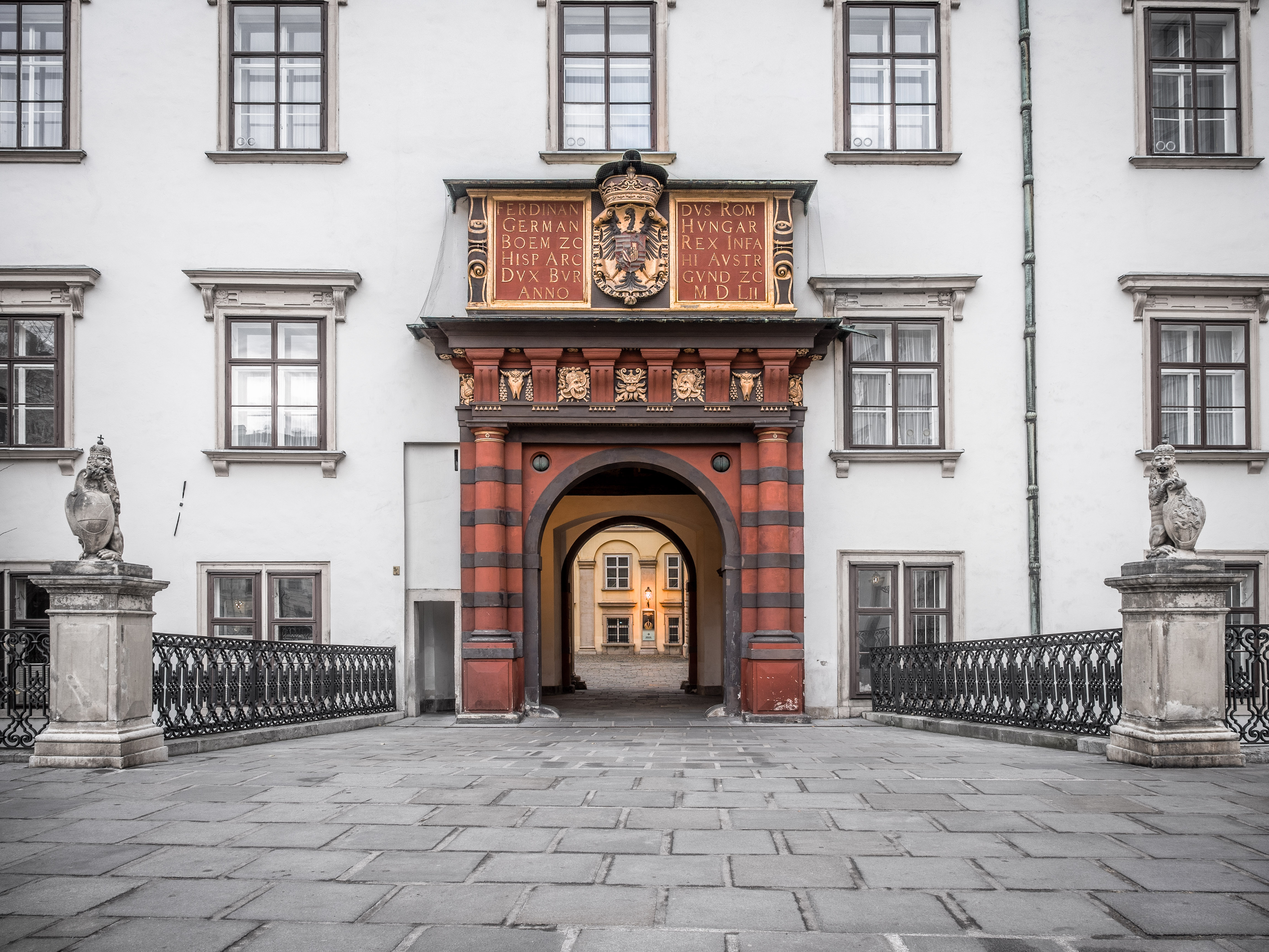 Schweizertor in the Viennese Hofburg.